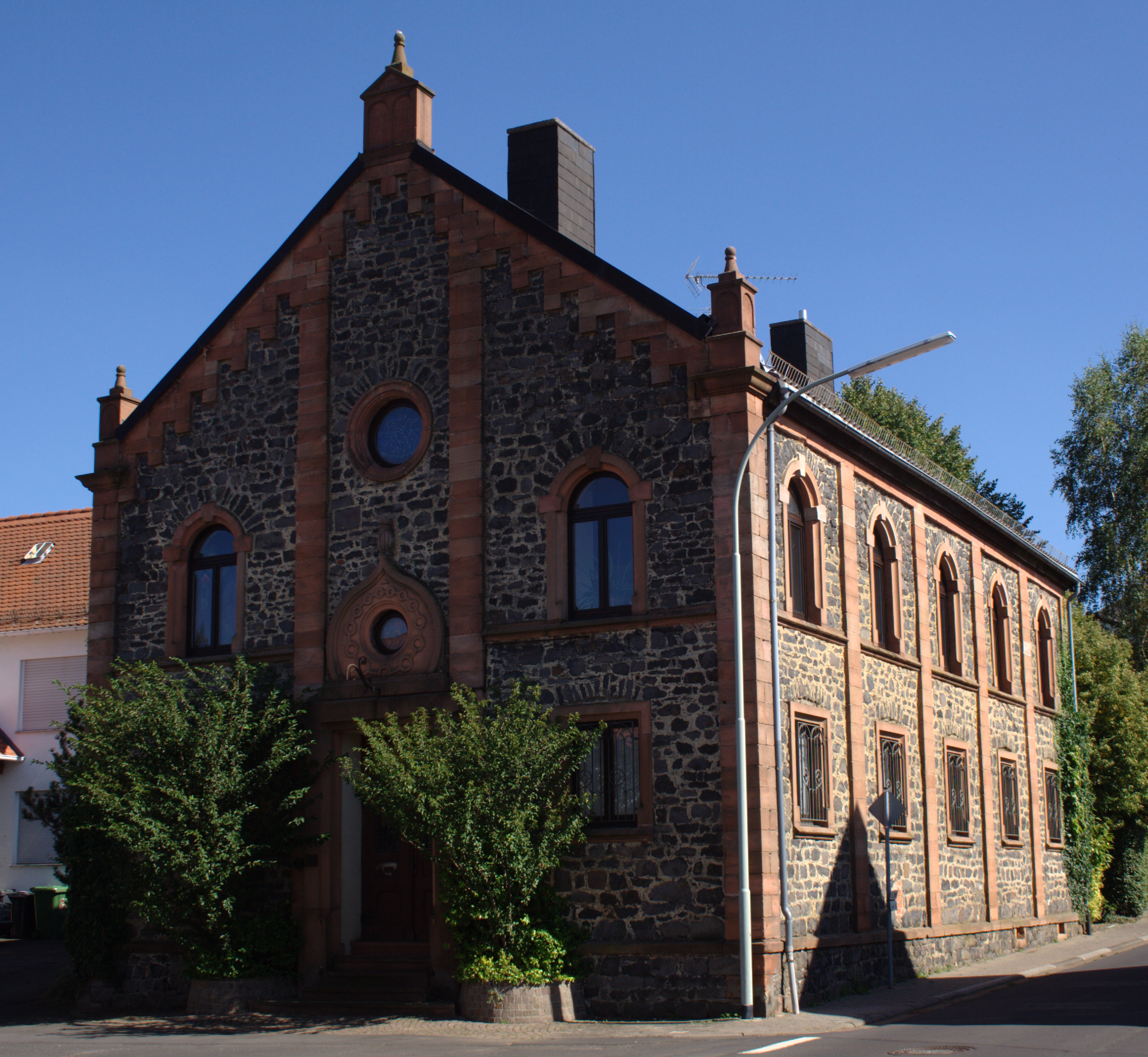 Synagogue in Ober-Seemen Mittelseemer Straße 4 Gedern / Hesse / Germany